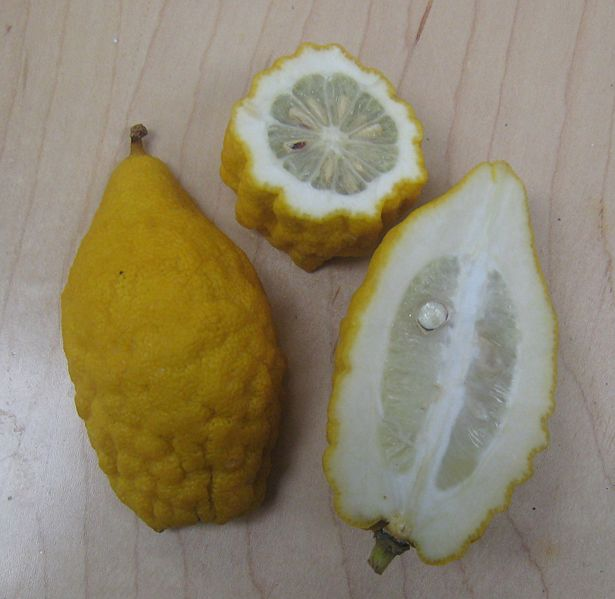 Citron